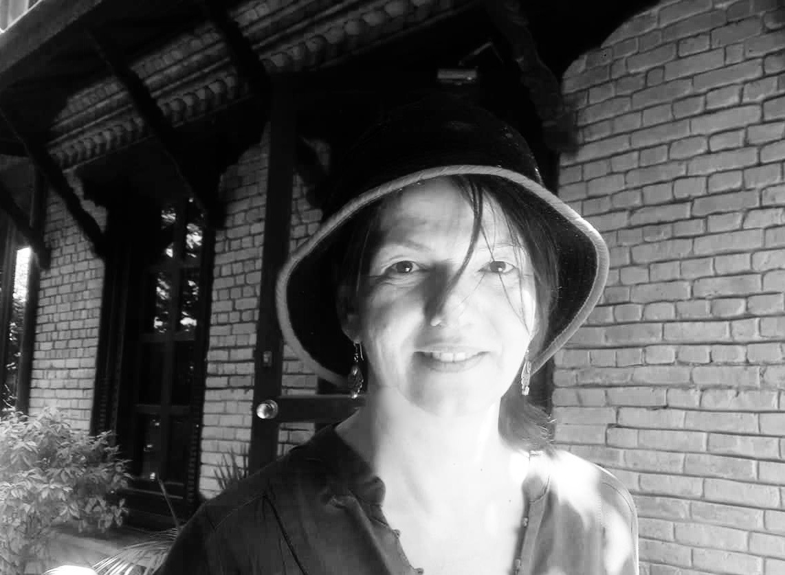 Portrait of Zsóka Gelle taken in Kathmandu, Nepal